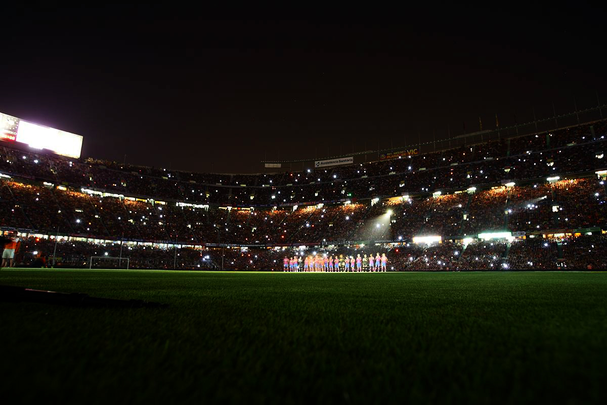 Football : The Joan Gamper Trophy match between Barcelona and Manchester City at the Camp Nou Stadium on August 19, 2009 in Barcelona, Spain. (Photo by Tsutomu Takasu)